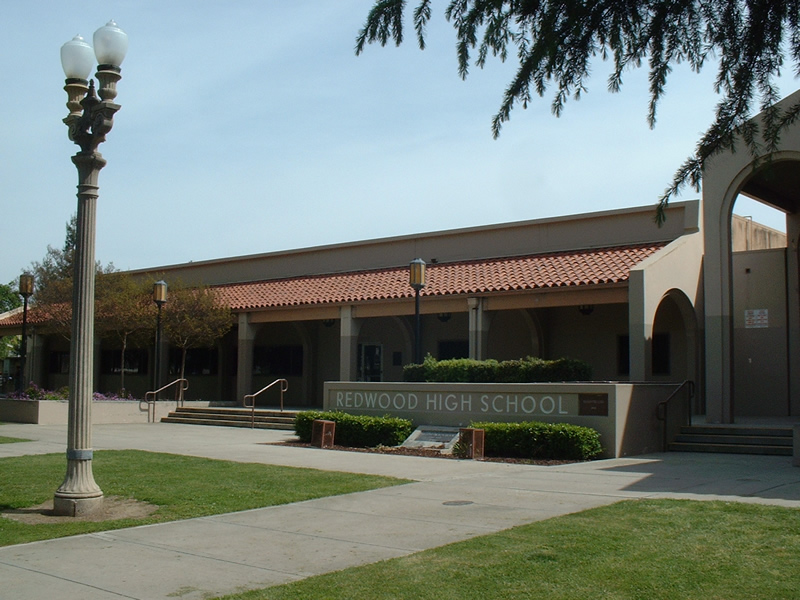 Redwood High School (Visalia) Main Entrance